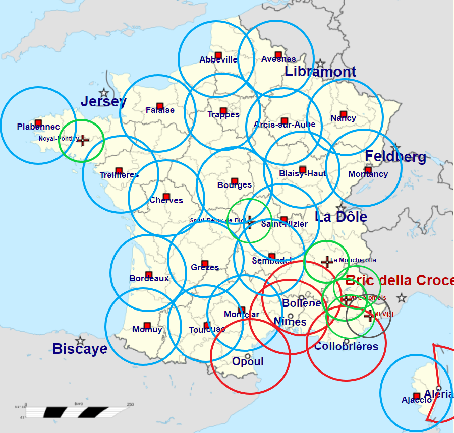 The French weather radar network (ARAMIS) as of Septembre 1st, 2019. The red circles are for S Band radars, the blue for C Band radars with a radius of 100 km. The X Band radars are in green with a radius of 50 km except in black for the Mt Vial radar which is not owned by Meteoo-France. Star location are for neighboring country radars (UK, Spain, Italy, Belgium, Germany, Swiss and Italy).